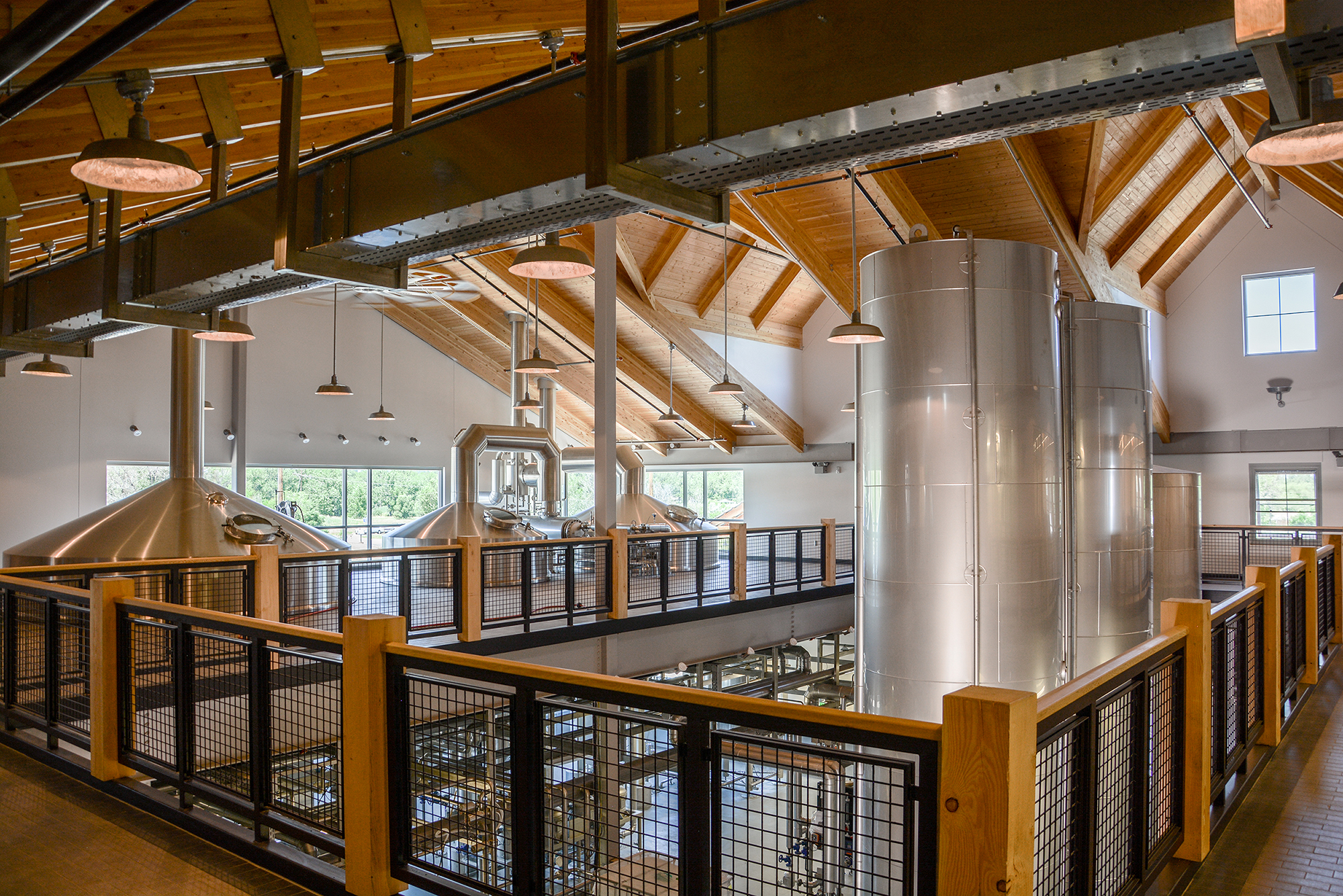 A 2015 photo of the interior of Breckenridge Brewery in Littleton, Colorado.